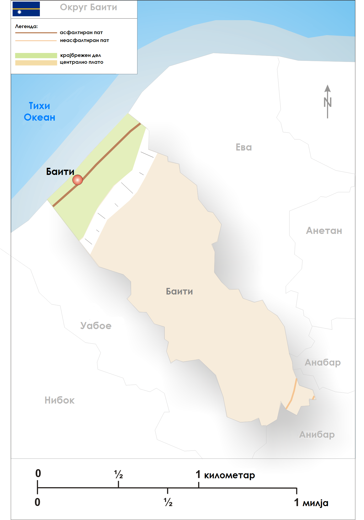 Map of Baiti Districst, Nauru.